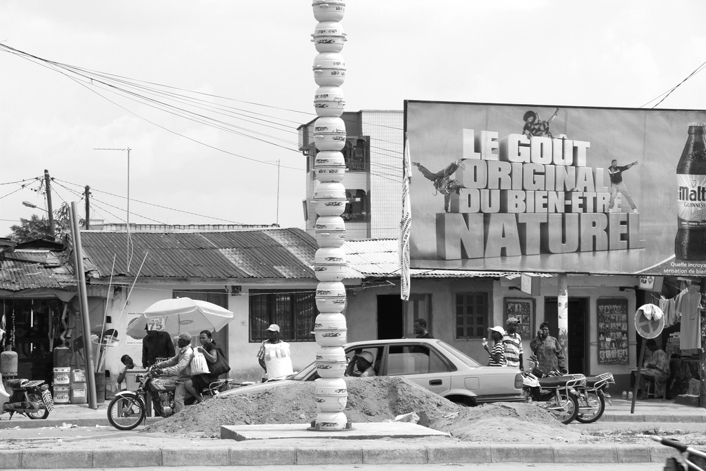 SUD Salon Urbain de Douala 2010 Public monumental sculpture commissioned in the frame of SUD Salon Urbain de Douala.